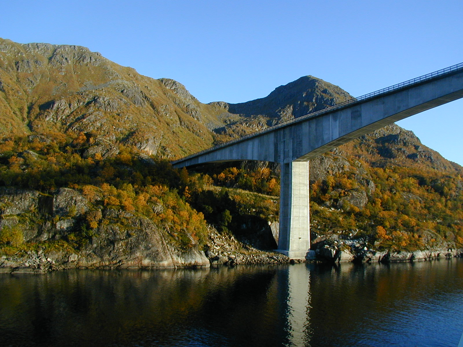 A part of Raftsund Bridge in Nordland county, Norway. This is the eastern end, Hinnøya island. Original description: P9220091